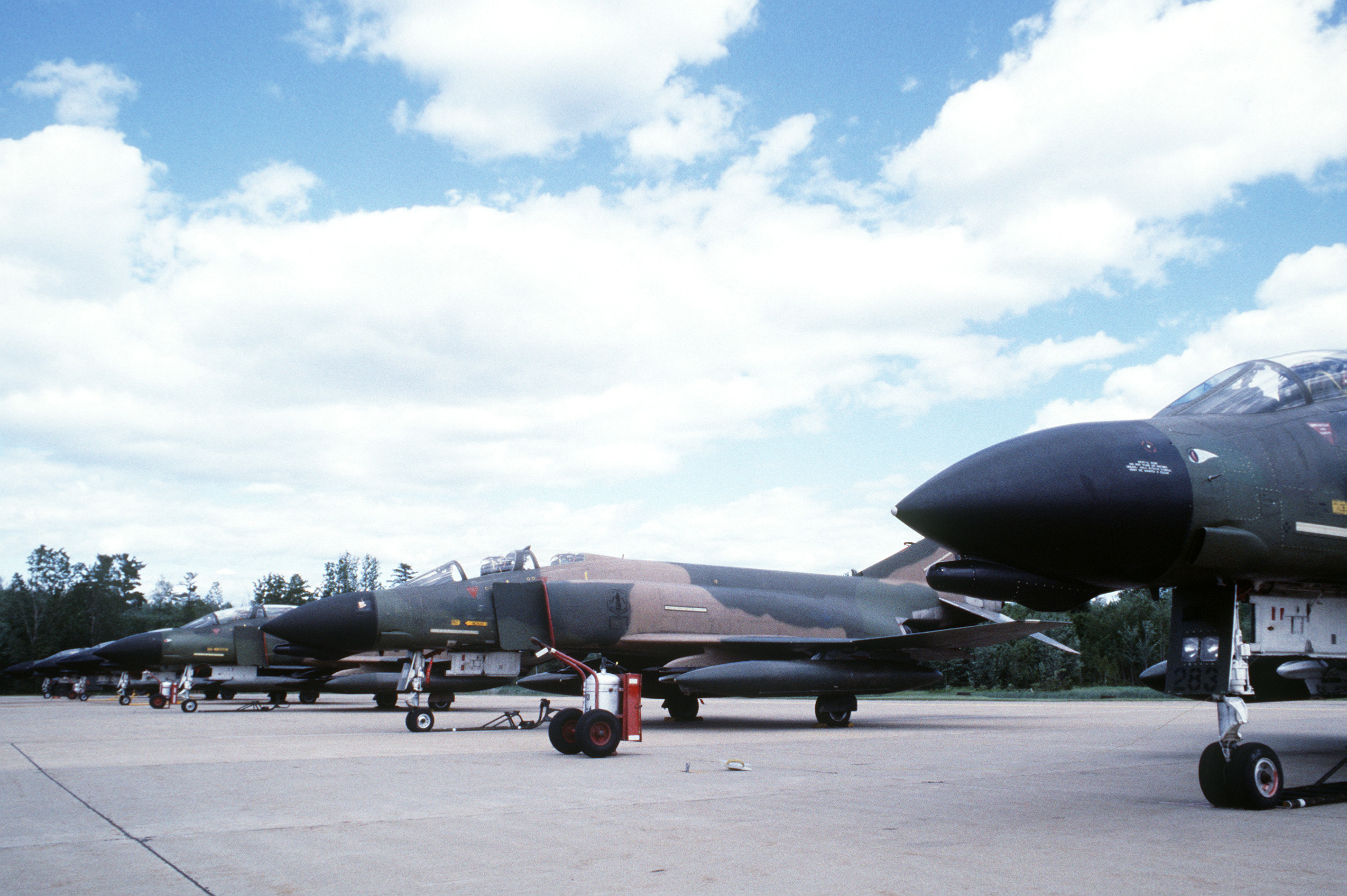 U.S. Air Force McDonnell F-4D Phantom II fighters from the 134th Tactical Fighter Squadron, 158th Tactical Fighter Group, Vermont Air National Guard, parked on the flight line at Plattsburgh Air Force Base, New York (USA), on 16 June 1984.